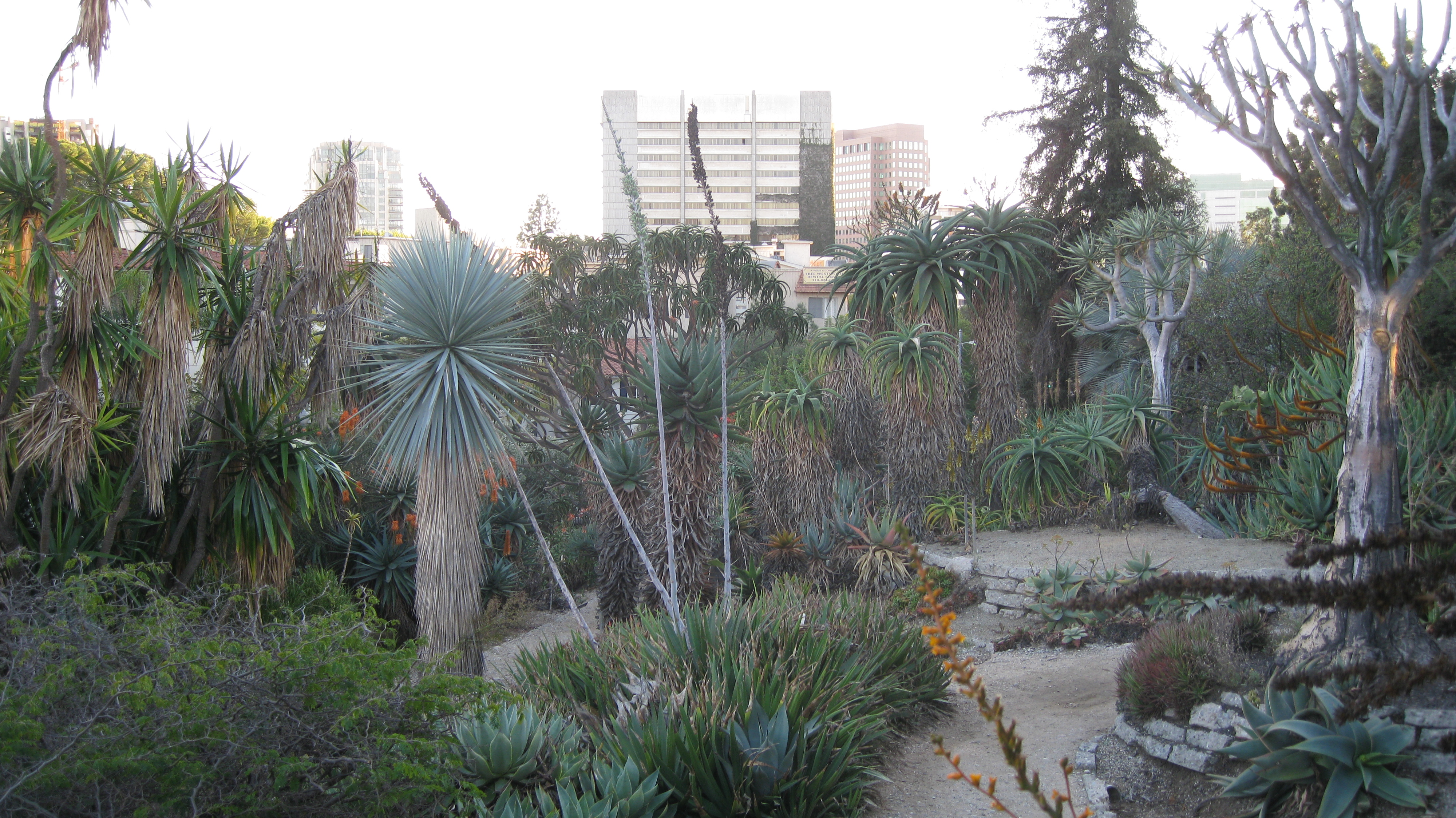 Desert collection and succulents @ Mildred E. Mathias Botanical Garden,UCLA